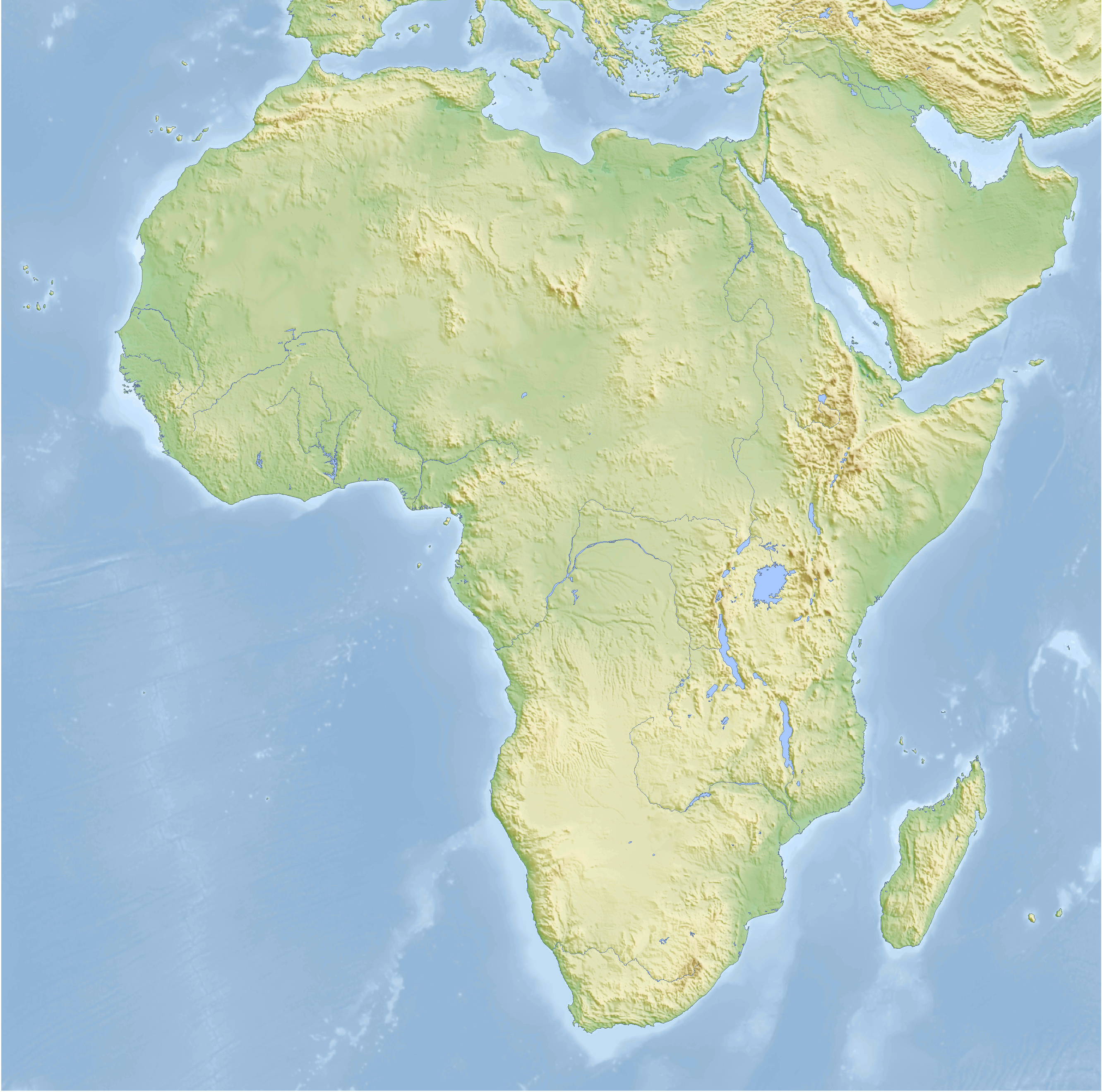 Topographic map of Africa, Cassini cylindrical projection